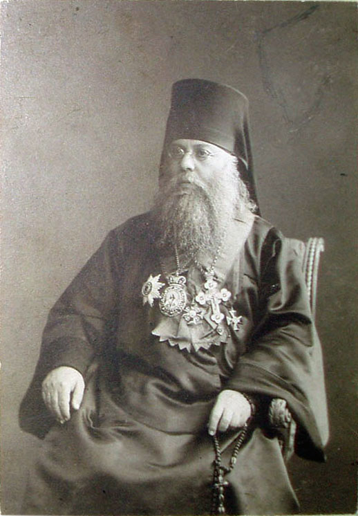 Leonid of Georgia